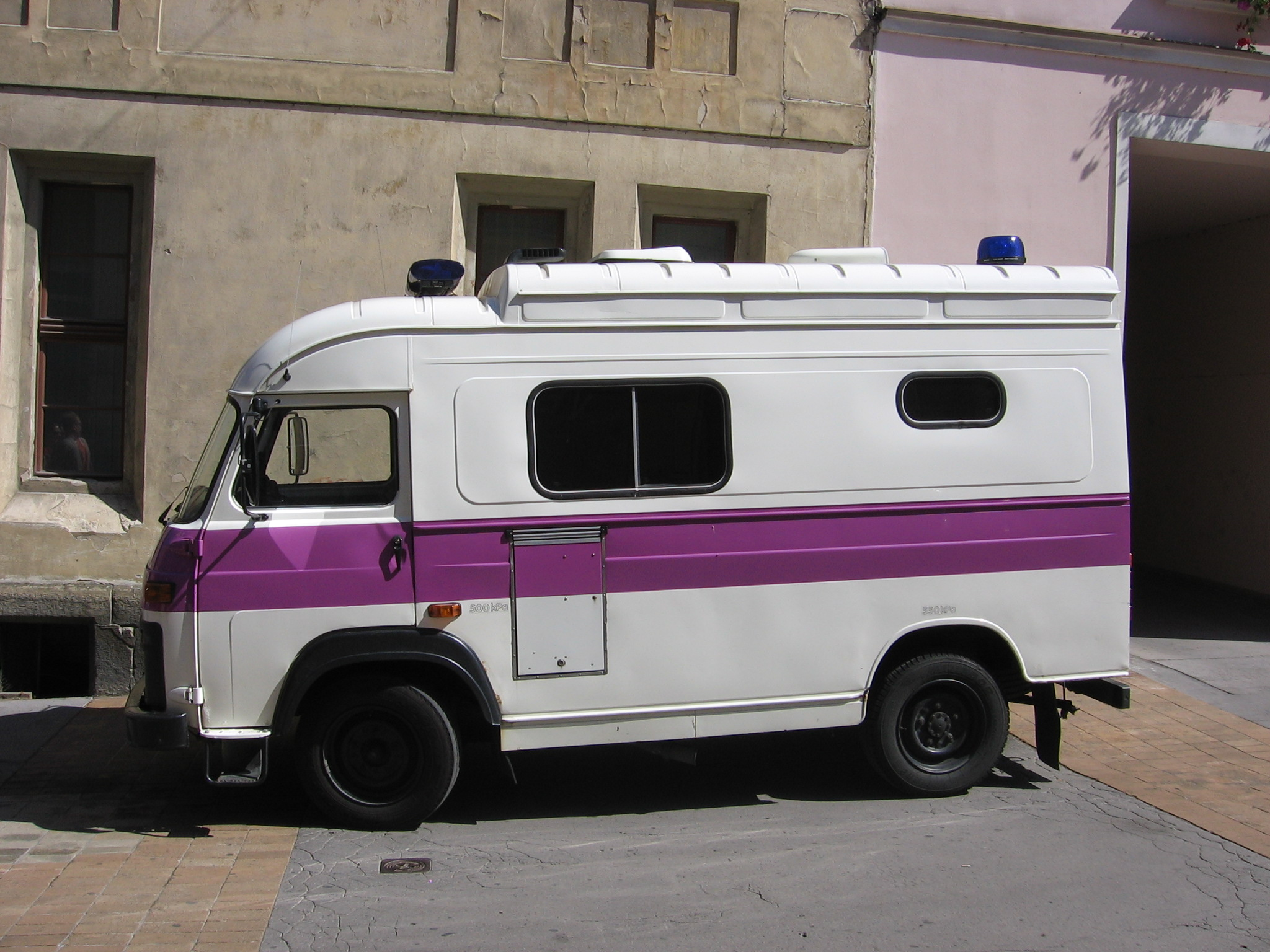 Car Avia used by the Prison Service of the Czech republic